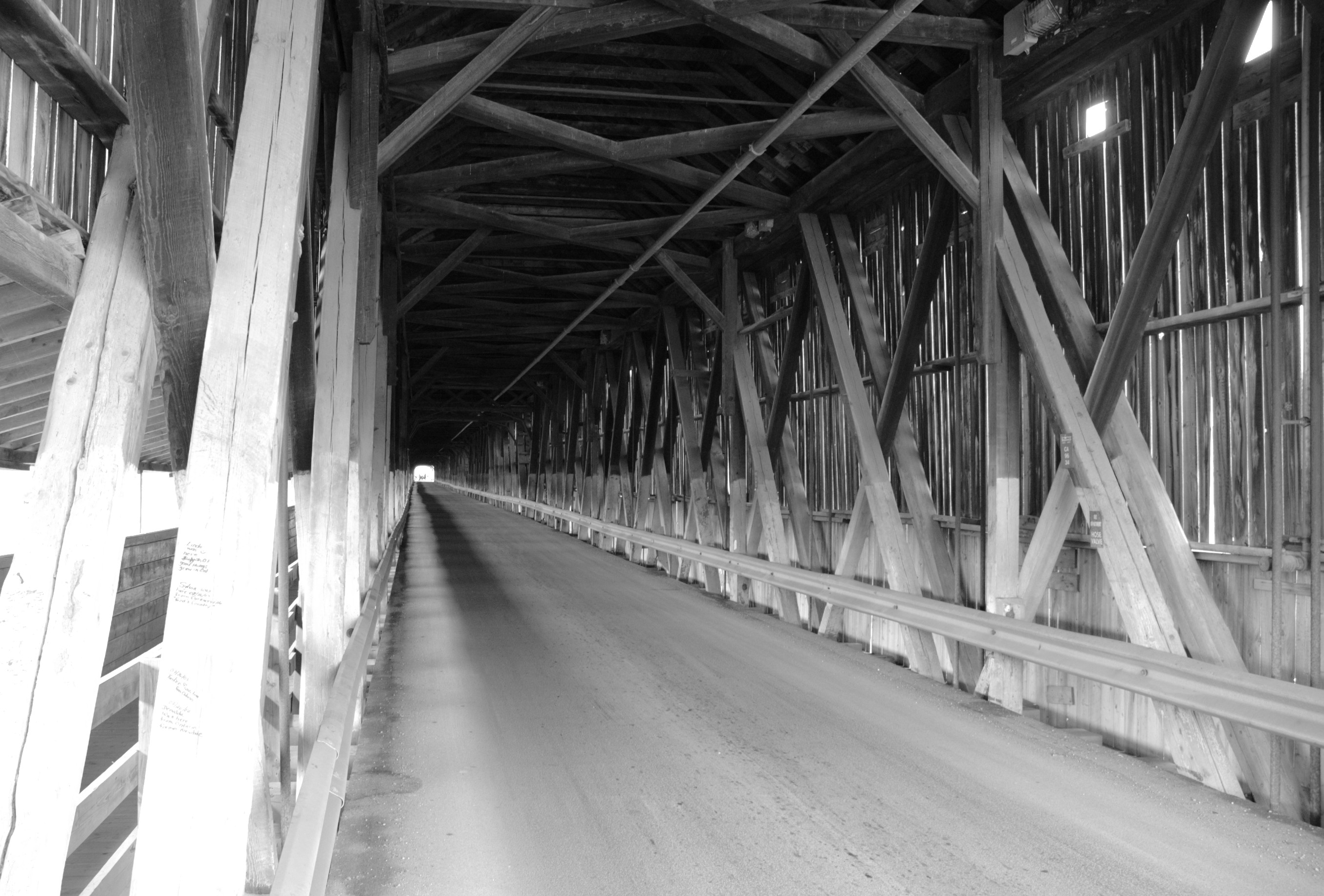 Inside of Hartland Bridge, in New Brunswick